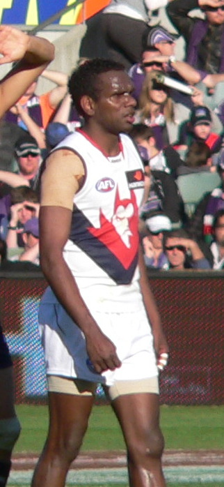 Liam Jurrah at Subiaco Oval in July 2010